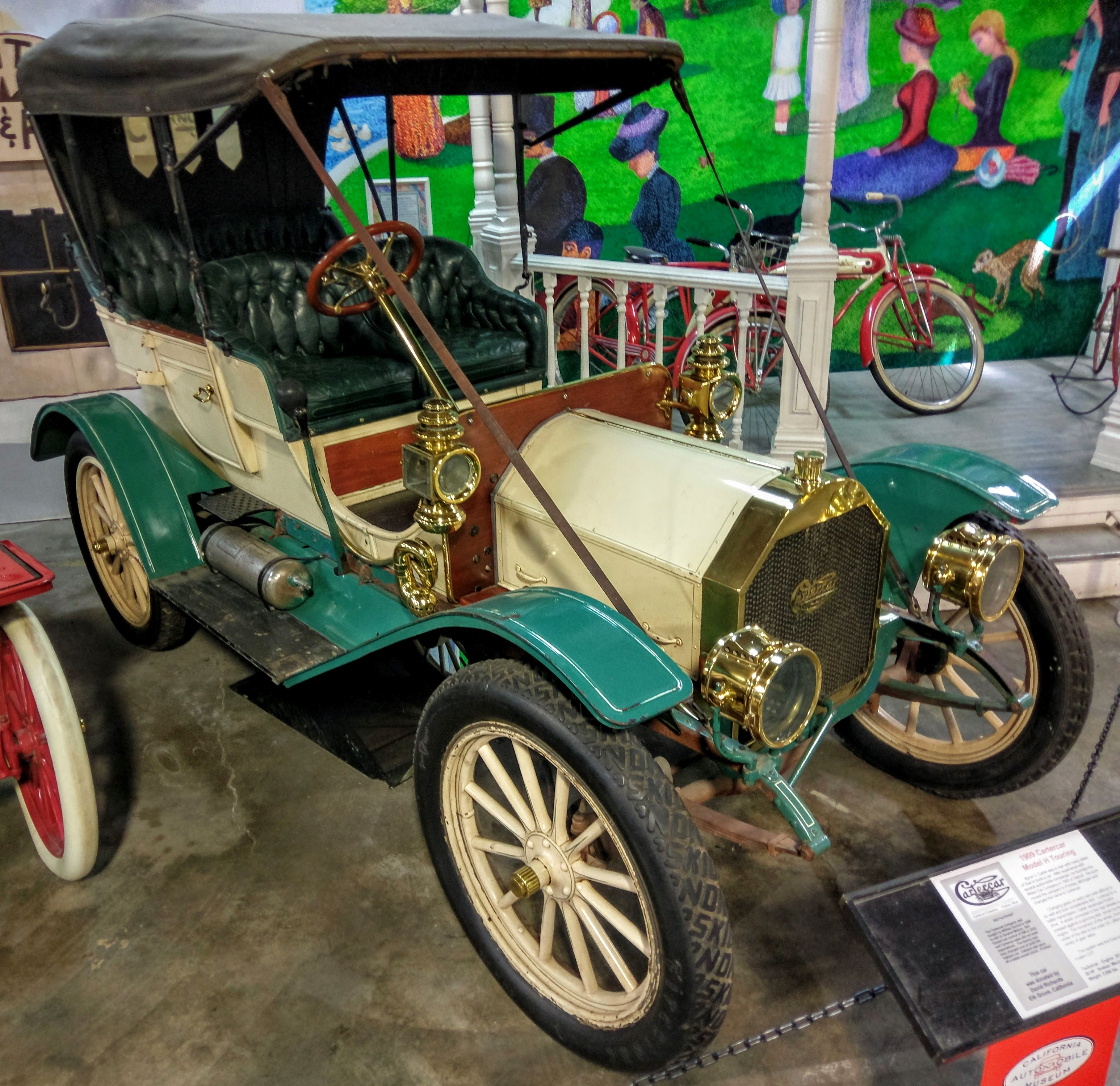 On display at the California State Automobile Museum. Photo by Jim Heaphy.